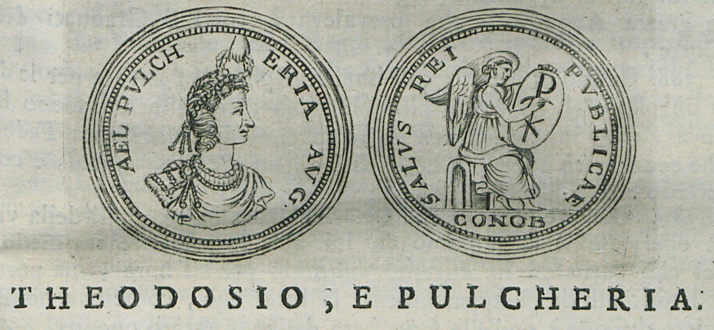 Illustration from Atene Attica Descritta da suoi Principii sino all’acquisto fatto dall’Armi Venete nel 1687…, Venice, Antonio Bortoli, 1695 edition, by Francesco Fanelli